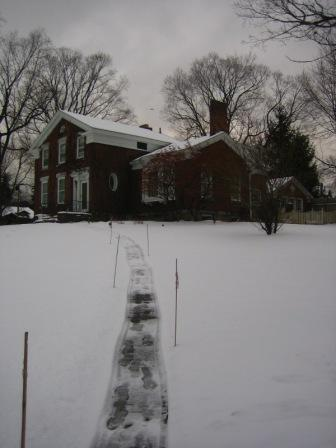 Harry N. Burhans House, 2627 E. Genesee St., Syracuse, New York. View from south, from the E. Genesee Street sidewalk.